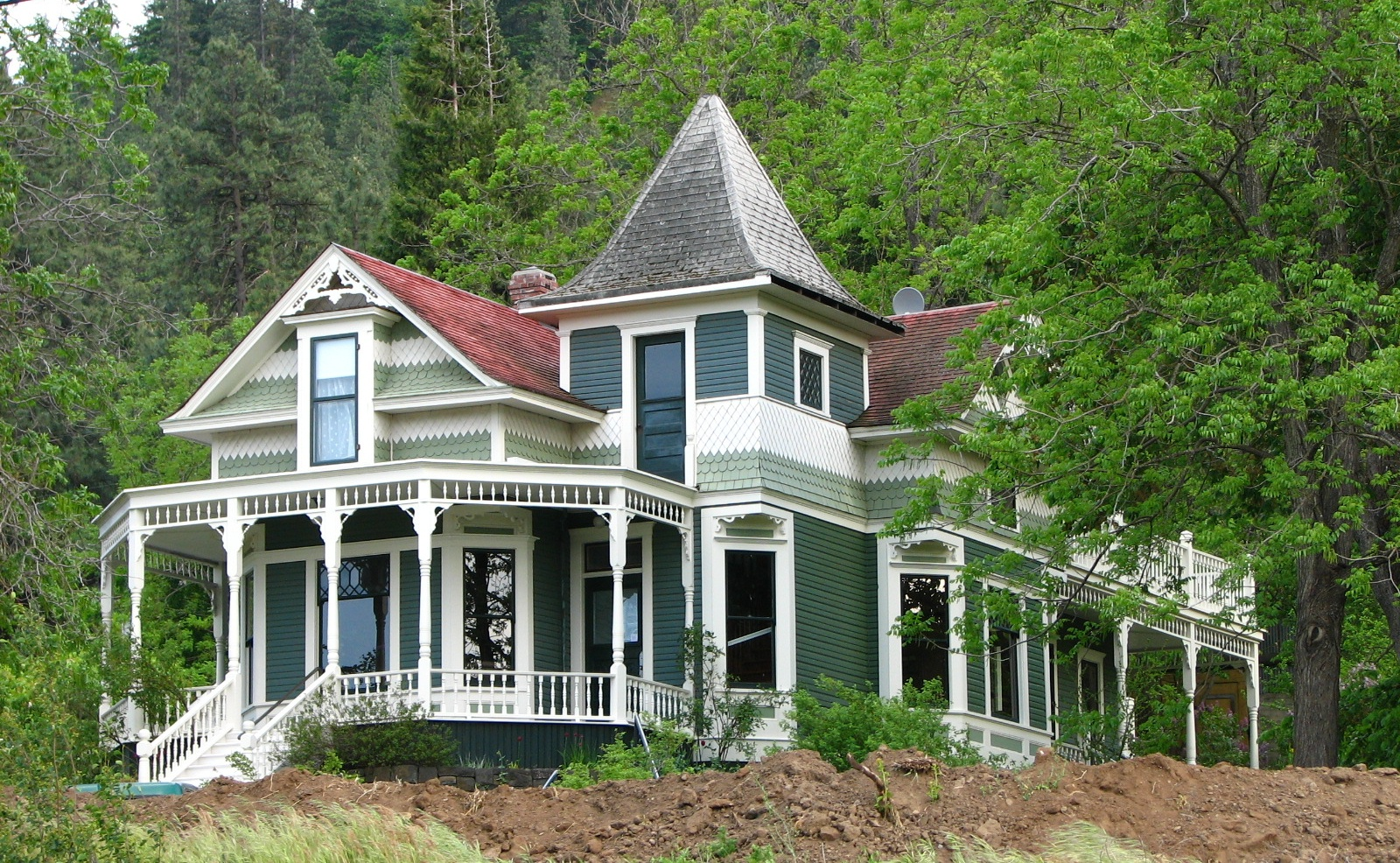 The historic Jefferson Mosier House, located at 704 Third Avenue in Mosier, Oregon, United States, is listed on the US National Register of Historic Places. It is currently in use as a bed-and-breakfast inn.